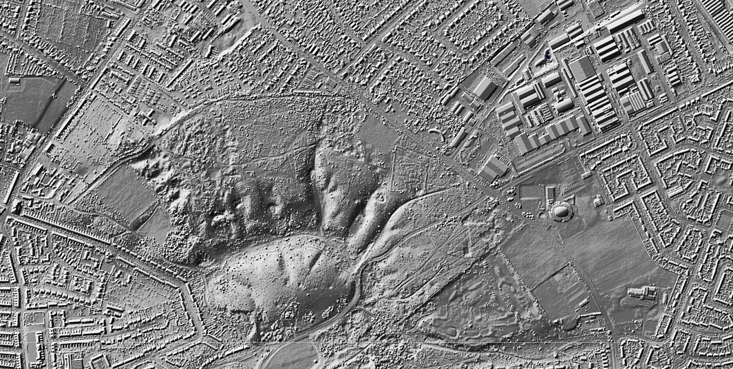 A LIDAR image of the area of Norwich centered on Mousehold Heath